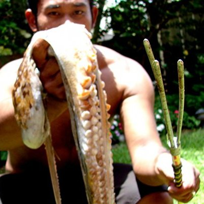 Hawaiians often use 3-prong spears to "tickle" the octopus from their hiding places.